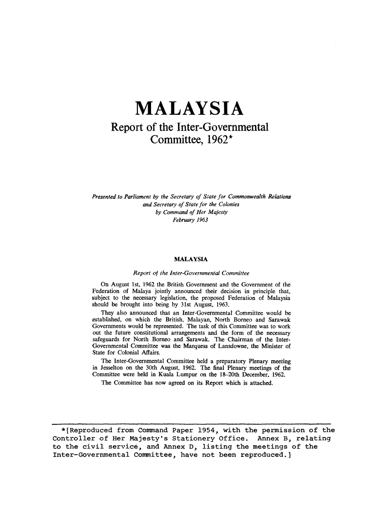 Front page from The Report of the Inter-Governmental Committee. On August 1st, 1962.